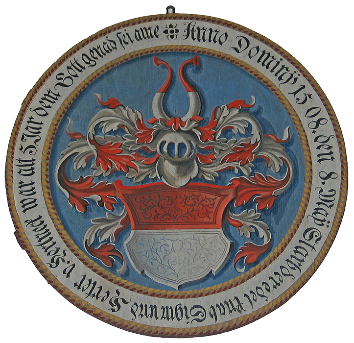 Wappen der Herter von Dußlingen Evangelische Peterskirche Dusslingen Foto: Wolfgang Sannwald